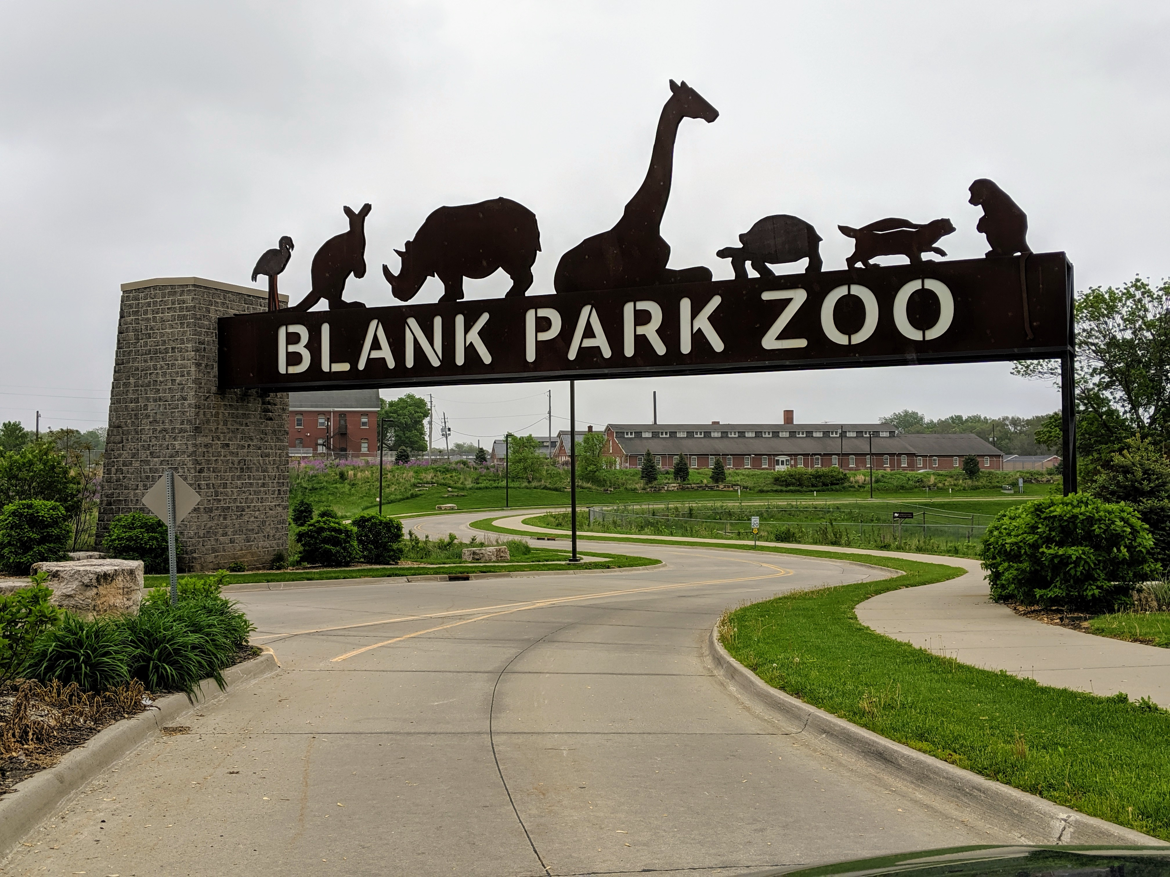 The entrance and driveway of the Blank Park Zoo, with zoo buildings in the background.